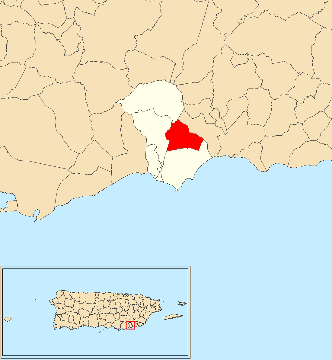 Ancones, Arroyo, Puerto Rico locator map